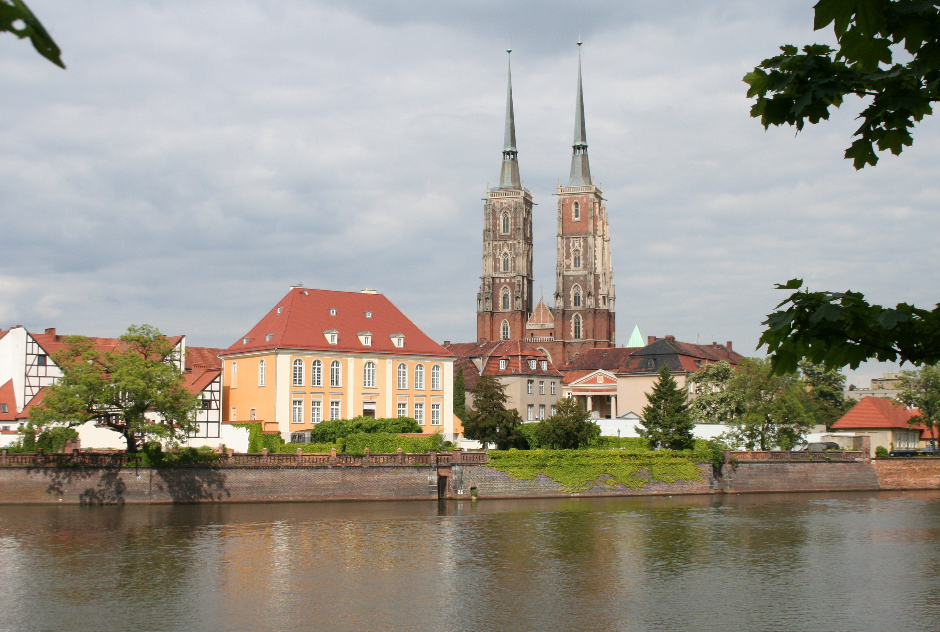 Poland, Wroclaw, cathedral island in Odra river, with Archicathedral